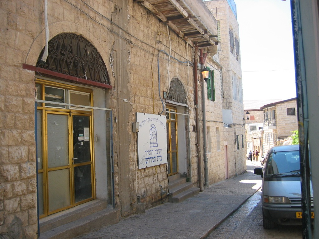 In the Old City of Safed you can feel the holy atmosphere